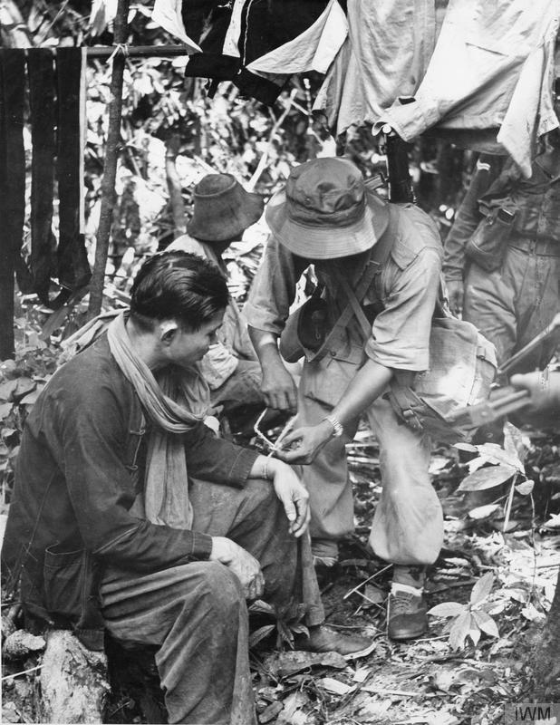 Two suspected communist terrorists after capture by a Malayan Police patrol in the jungle.